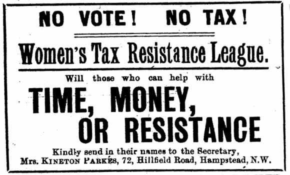 Adverstising for the Women's Tax Resistance League in the suffragist newspaper The Vote.